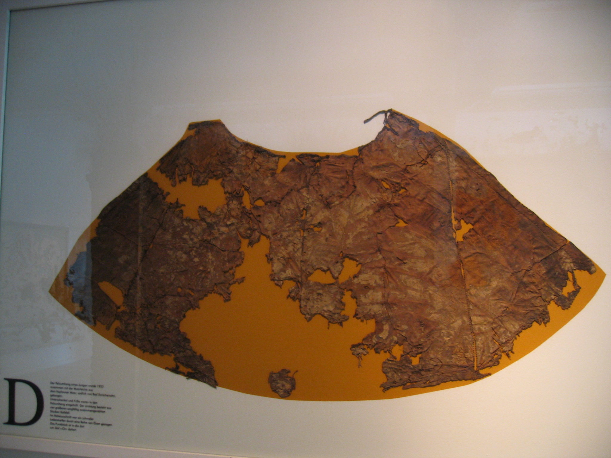 Fur cape of the Bog body Boy from Kayhausen near Oldenburg, Germany, approx. 364–350 BC